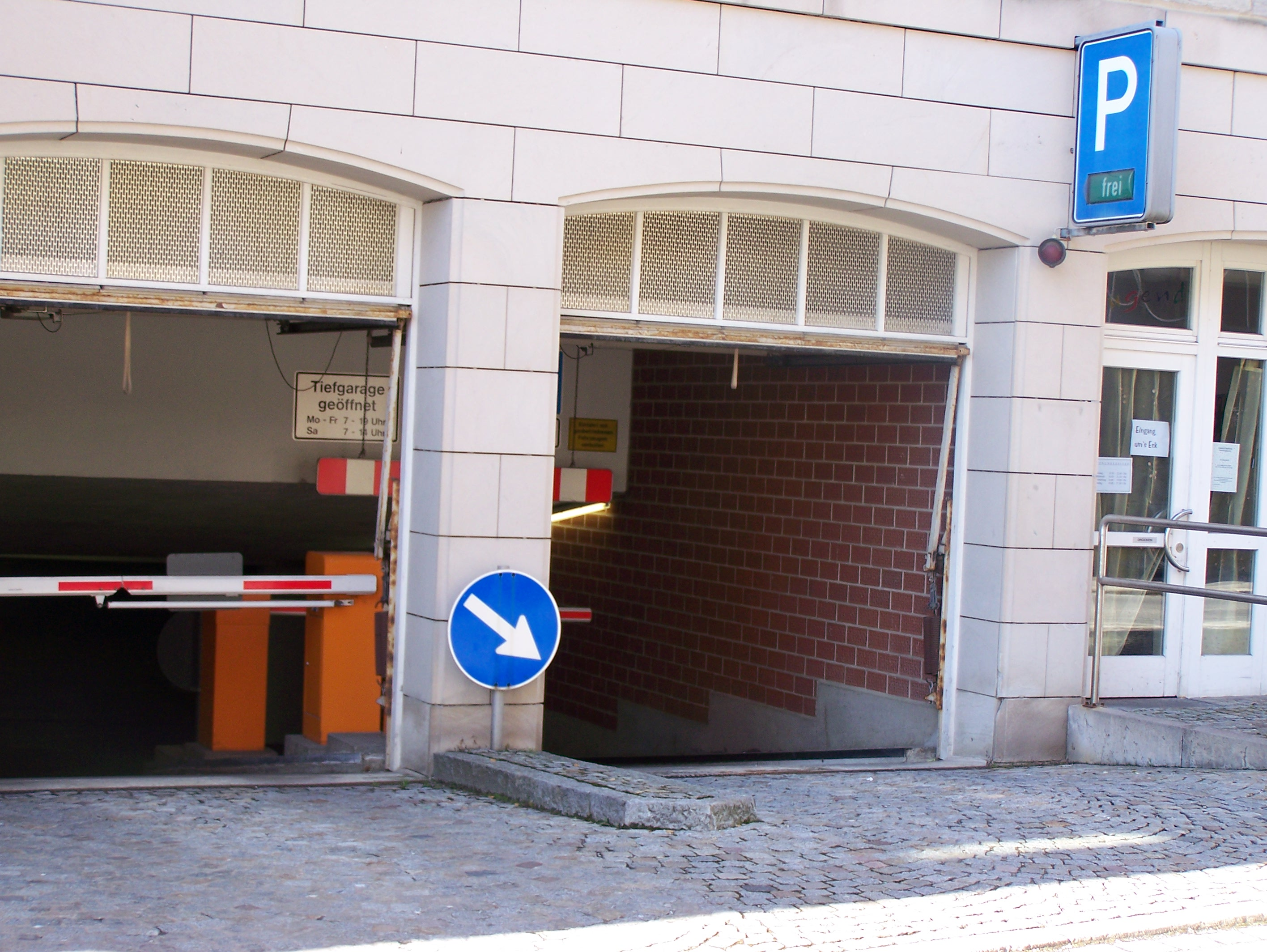 Underground Carpark in Schnaittach, Germany.